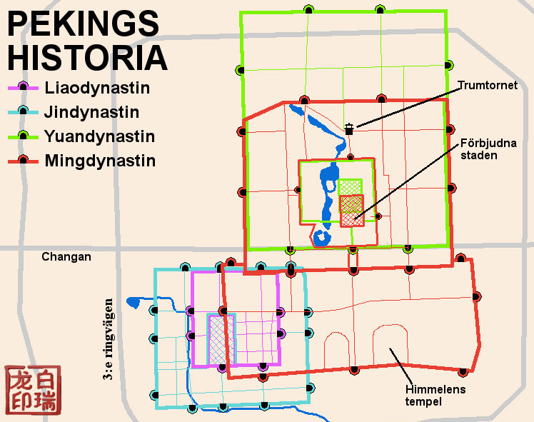 Map that describe how the layout of Beijing has changed during history